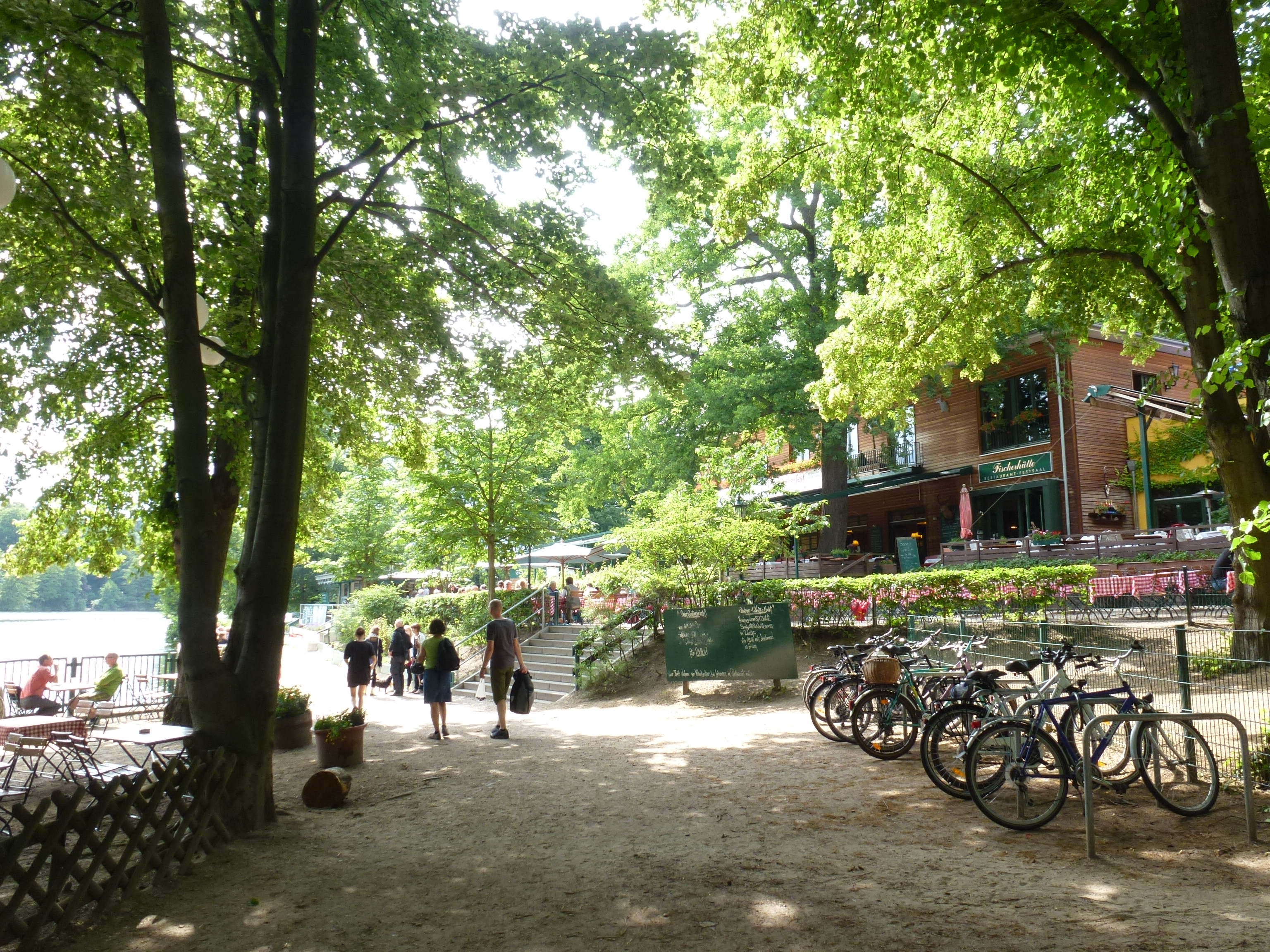 Restaurant Fischerhütte am Schlachtensee